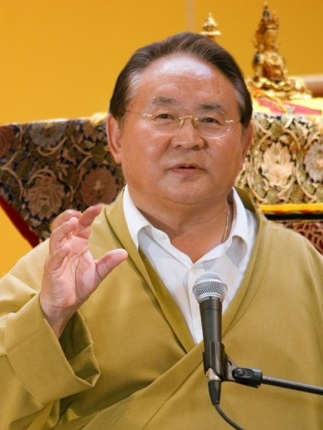 Sogyal Rinpoche teaching in Lerab Ling, 2006